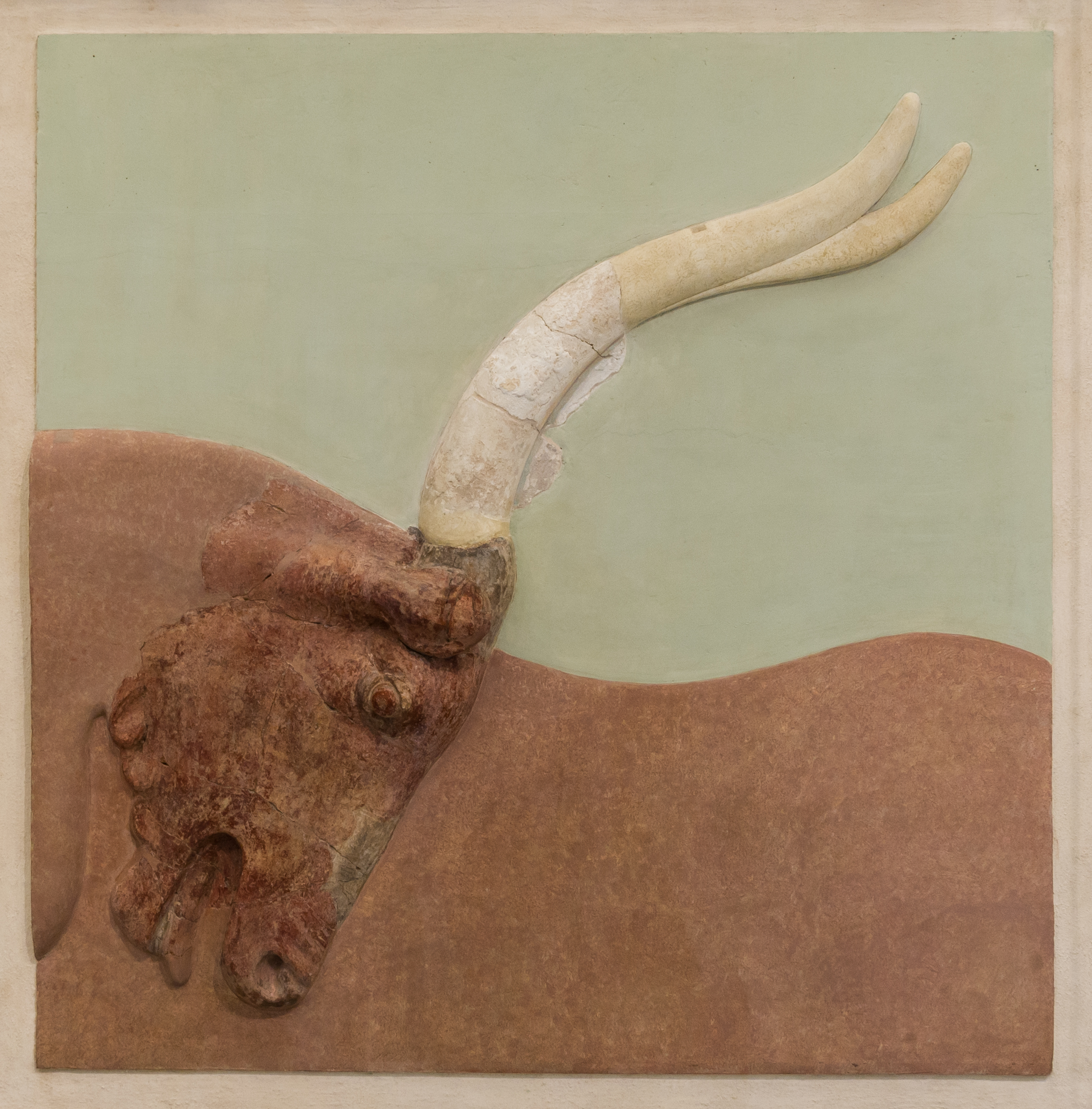 The bull relief fresco - original - in the archaeological museum of Heraklion. From Knossos palace (West bastion of the North Entrance Passage where one can see a copy nowadays, Neopalatial period (1600 - 1450 BCE )